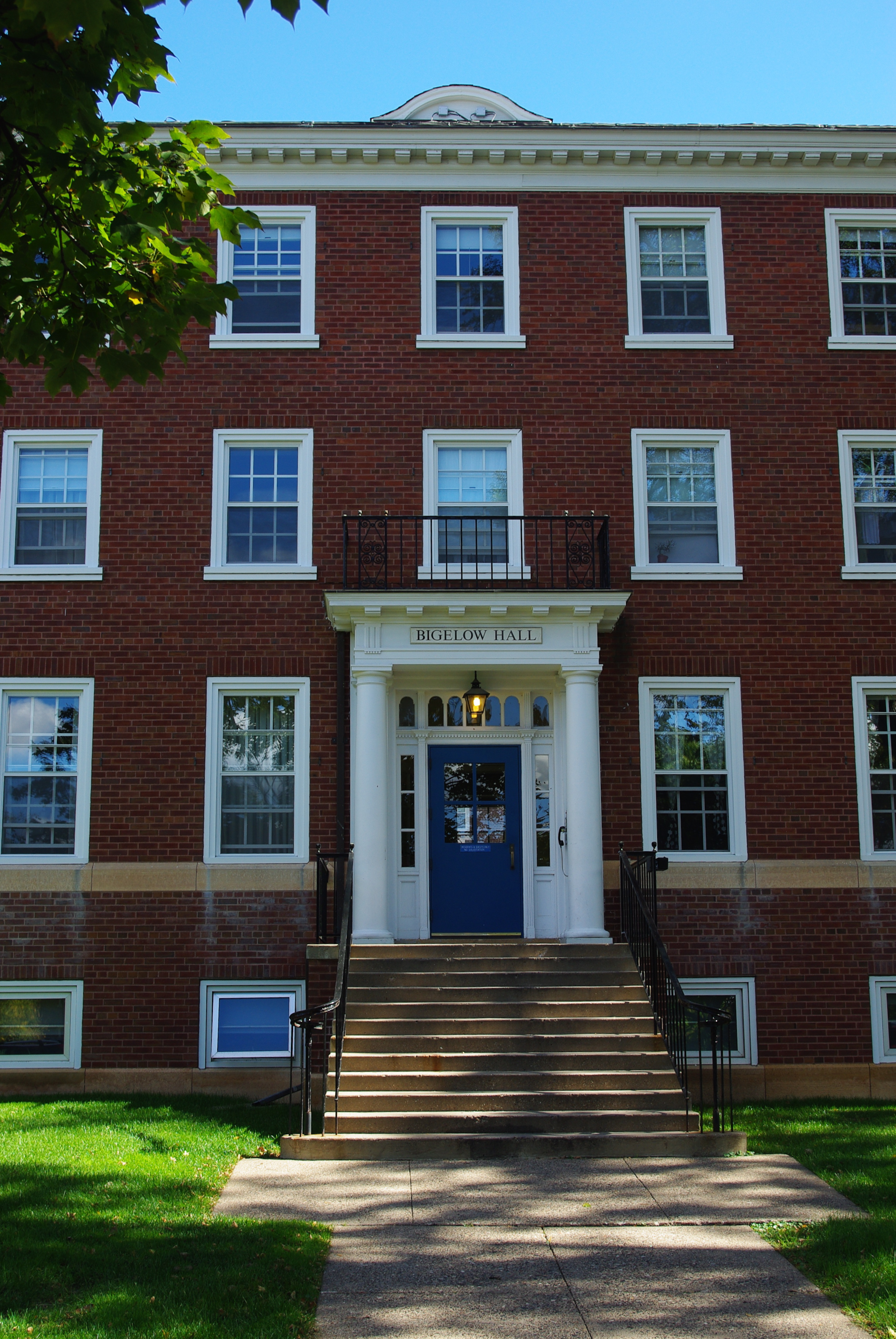 Bigelow Hall at Macalester College